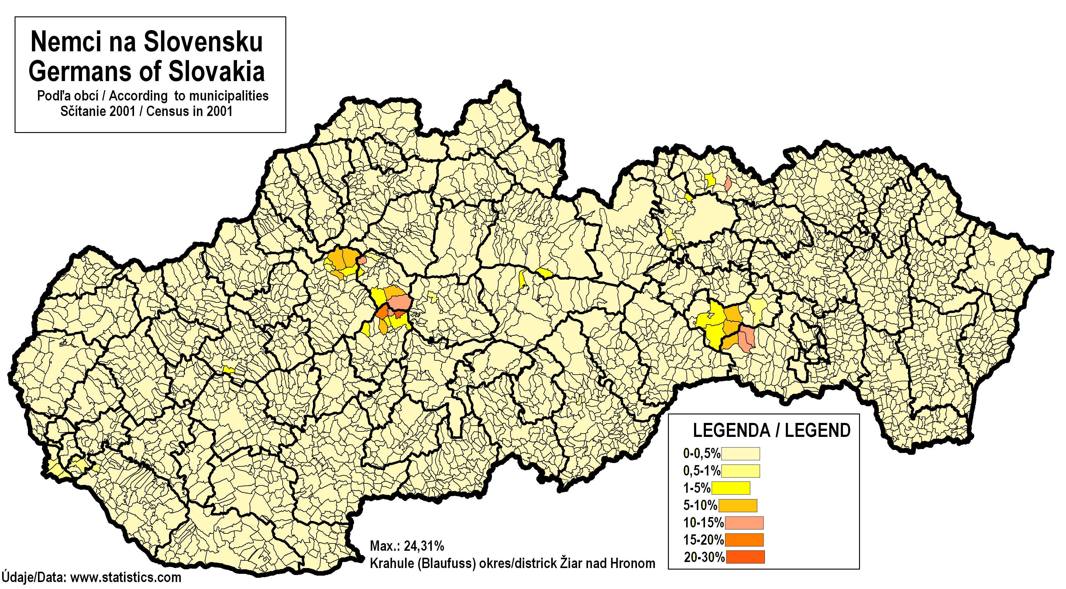 Carpathian Germans of Slovakia, according Census 2001.